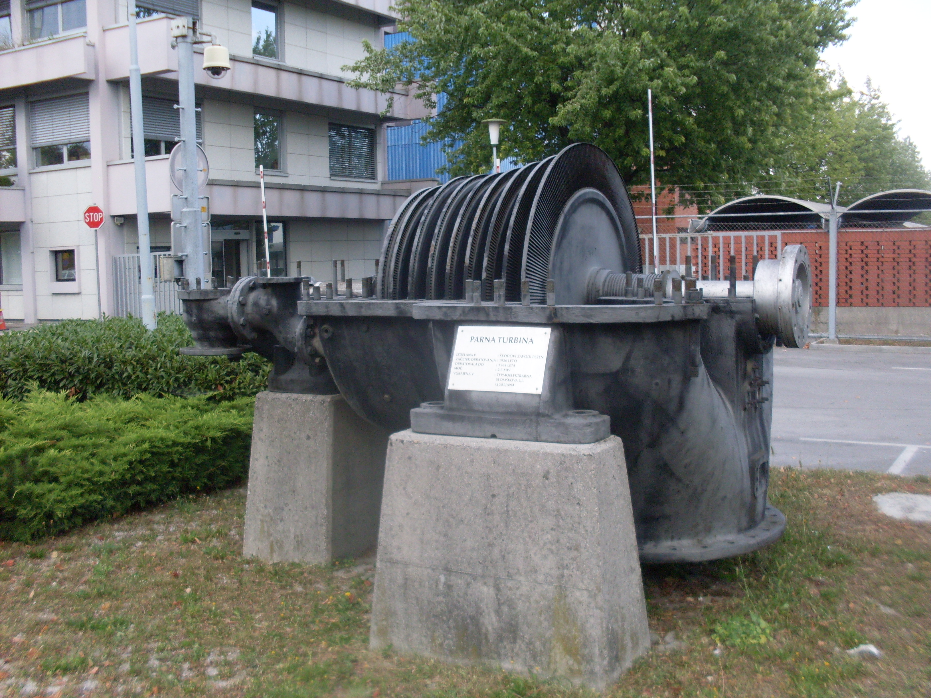 Exhibited steam turbine in front of Energetika headquarters at Verovškova street in the Šiška industrial zone (northern Ljubljana). The turbine was made in 1926 by Škoda Works (Škodovy závody) in Plzeň. It was in operation at the old city thermal power plant at Slomškova street (central Ljubljana) until 1964. Its power is 2.5 MW. More photos.